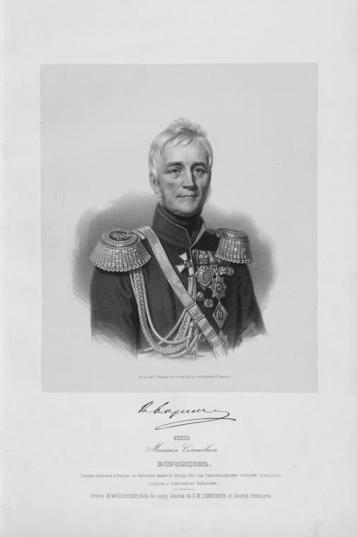 Mikhail Semyonovich Vorontsov. 1856.